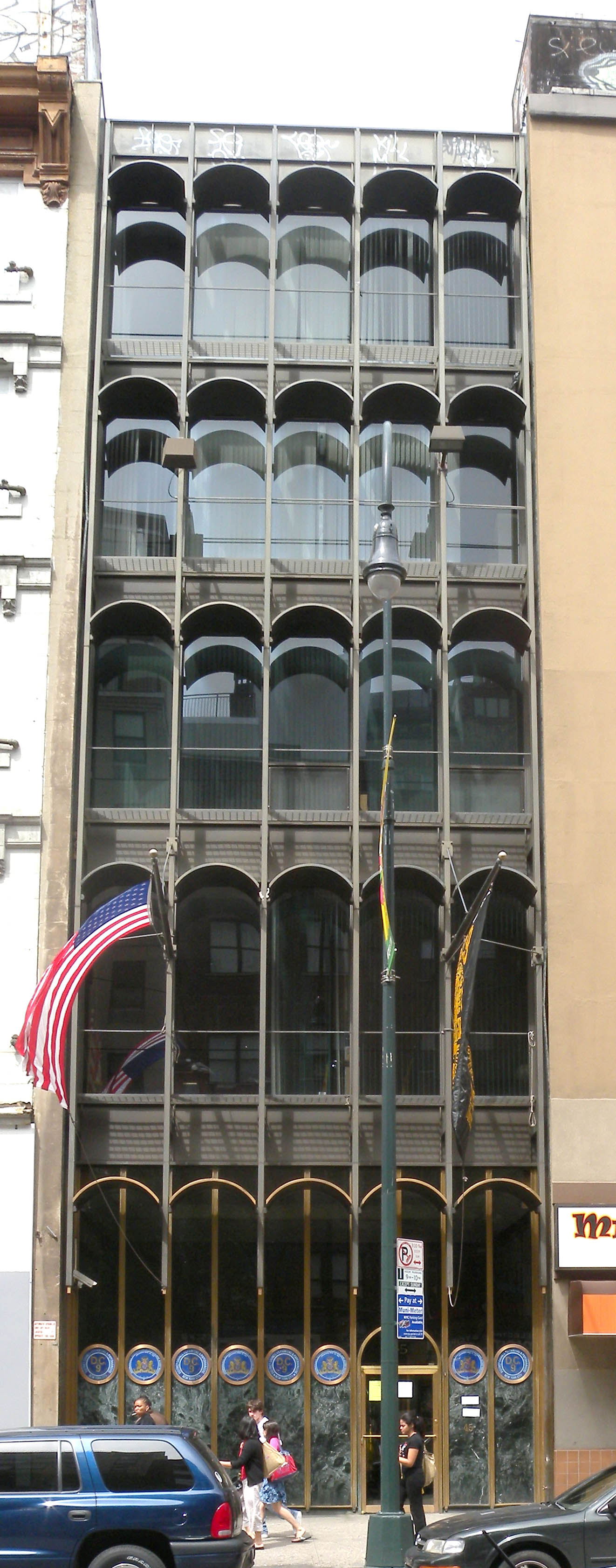 Looking north at 45 West 14th Street building of International Union of Painters and Allied Trades District 9 in Manhattan on a cloudy afternoon.